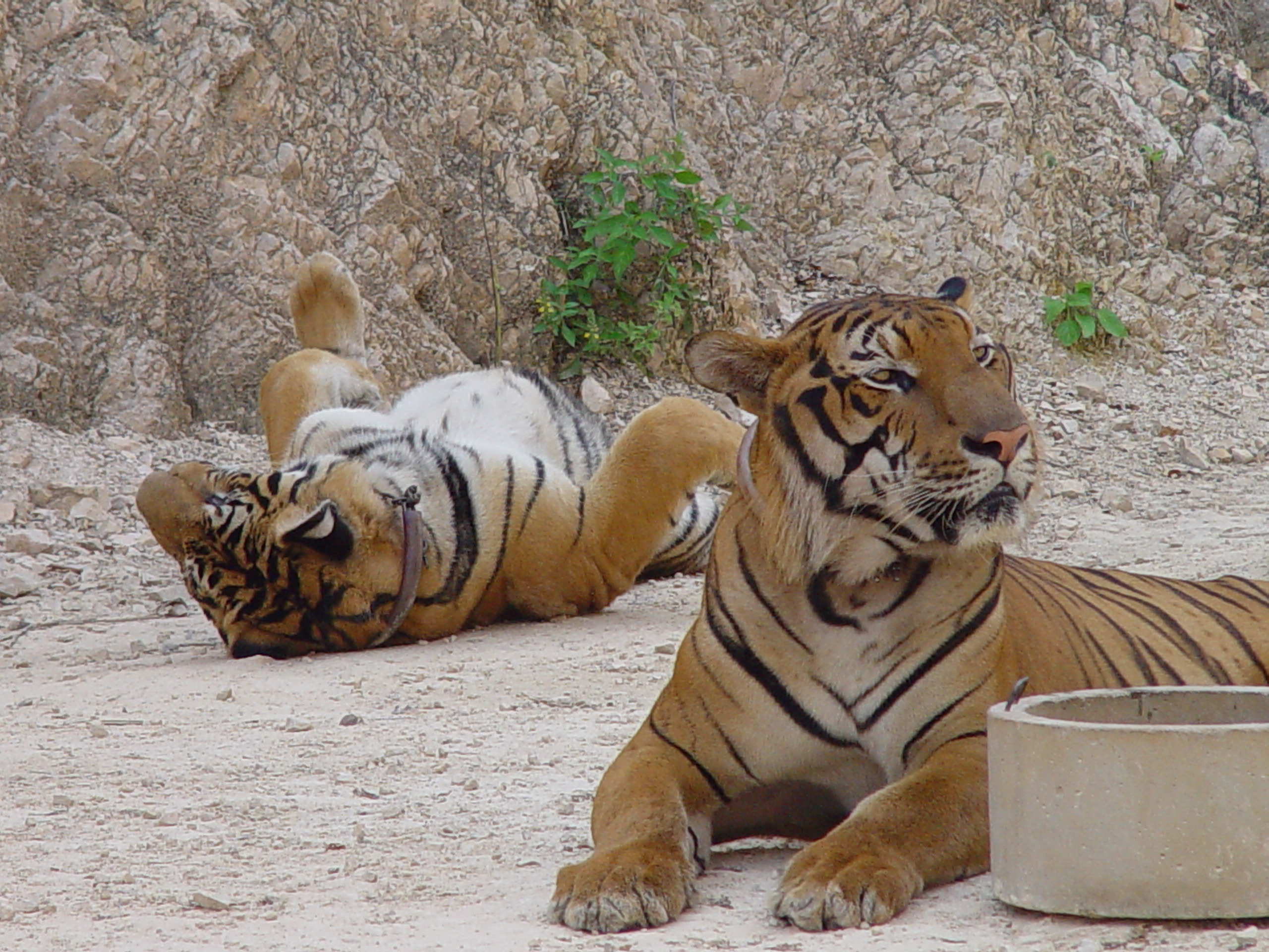 Tiger Temple, Thailand